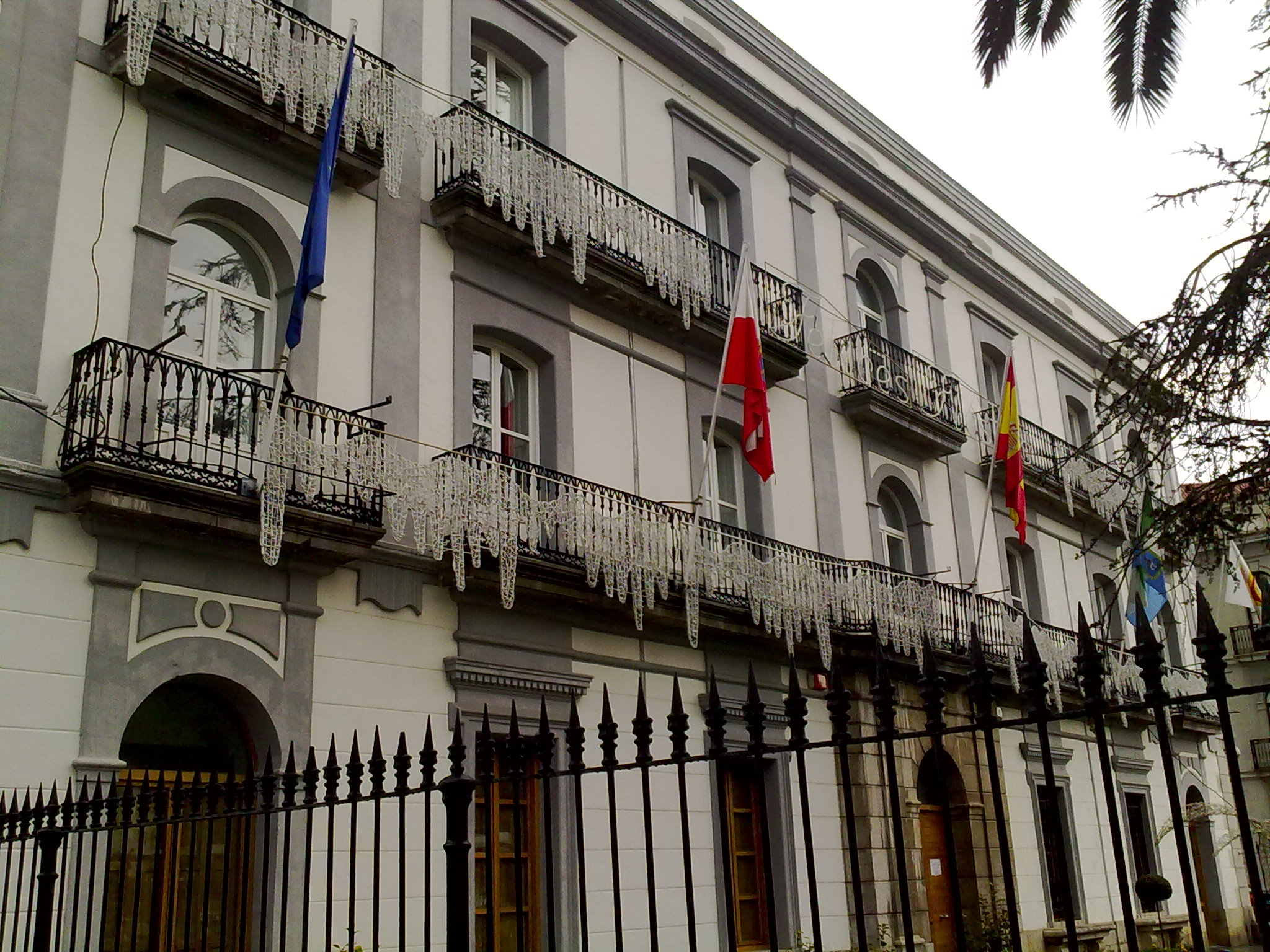 El Ayuntamiento de Laredo